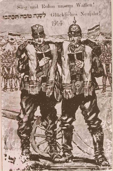 Rosh Hashana greeting card, 1914